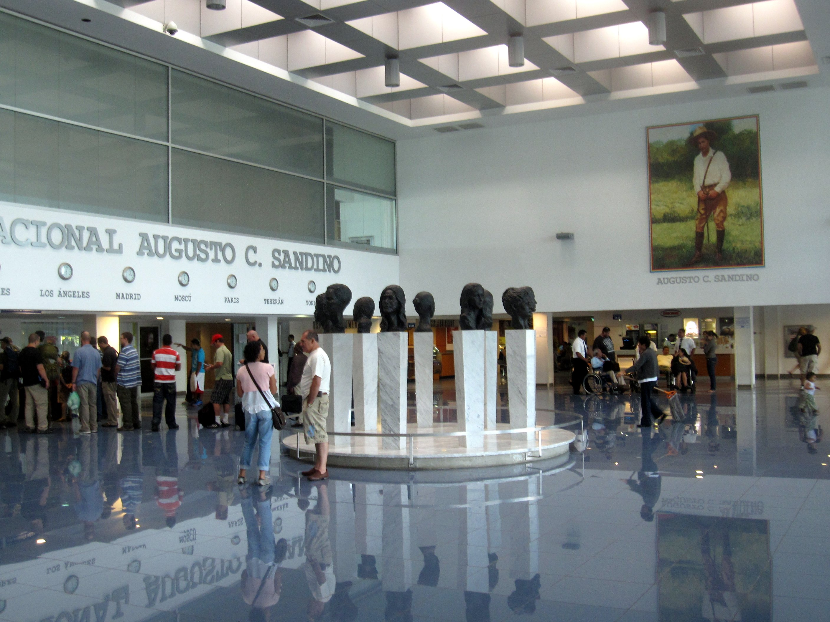 Main hall of Augusto C. Sandino international airport right before the security checkpoint, with sculptures in the center of the waiting lobby and a large portrait of Augusto César Sandino hanging on the wall in the background.